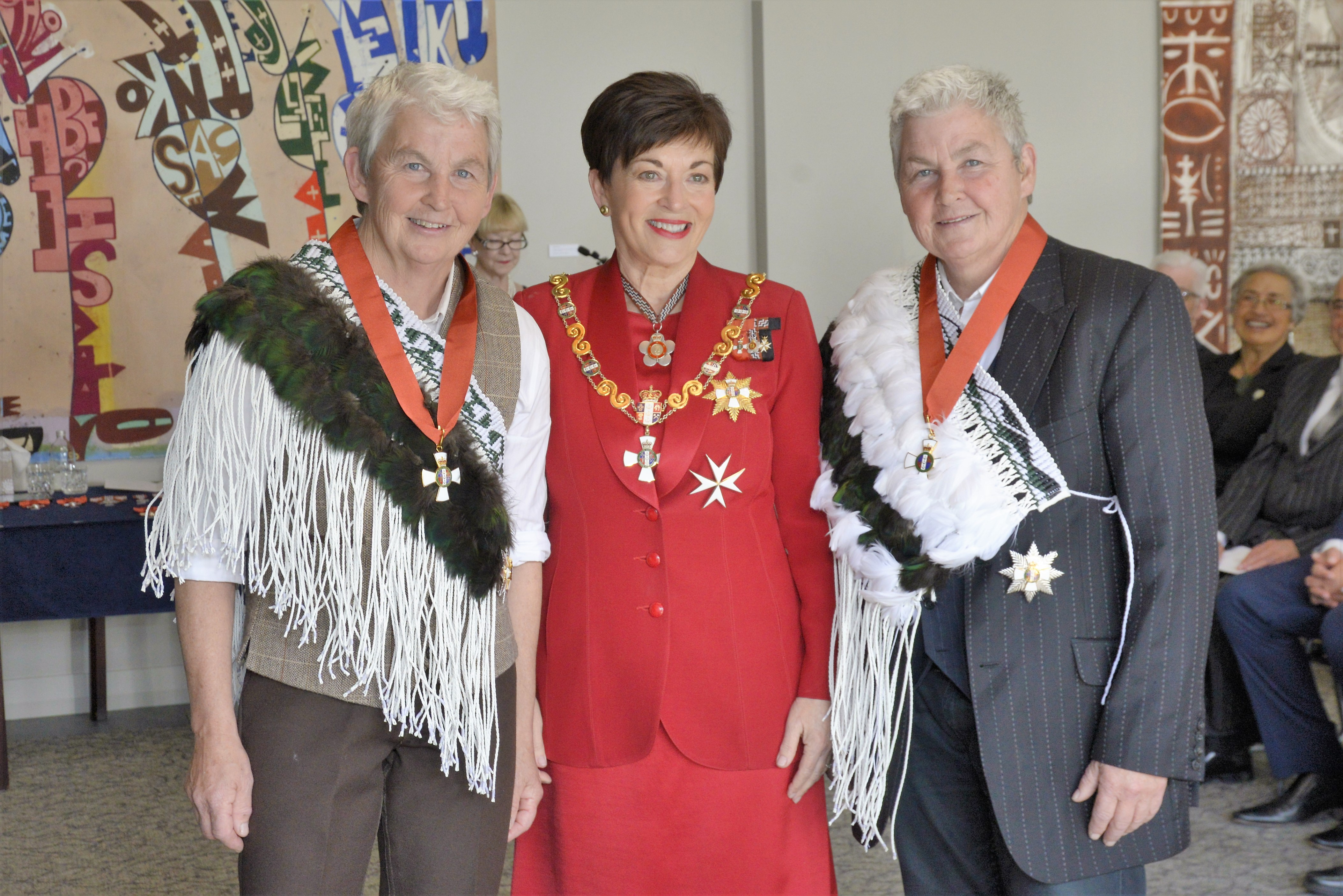 Jools Topp (left) and Lynda Topp (right), after their investitures as DNZM, for services to entertainment, by the governor-general, Dame Patsy Reddy, on 8 October 2018